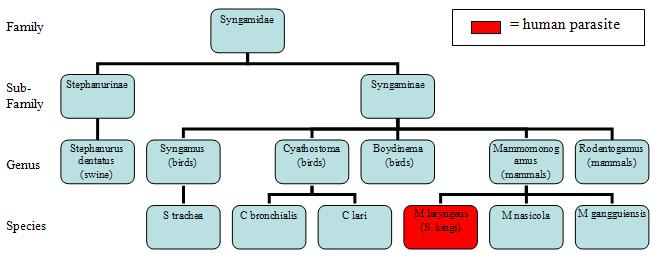 Taxonomy classification of Syngamidae family.